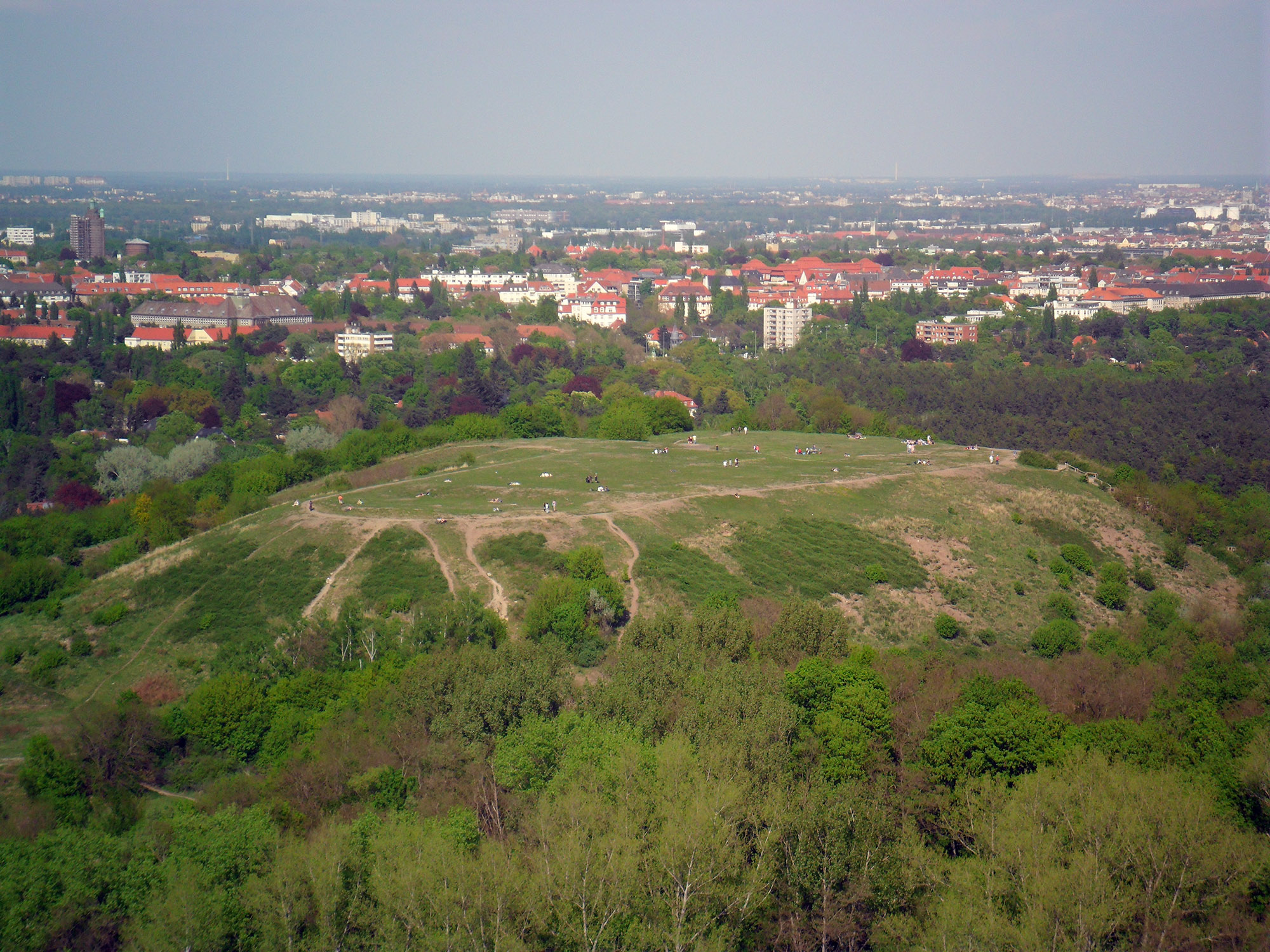 Hilltop of the Drachenberg in Berlin (viewing from the Teufelsberg).